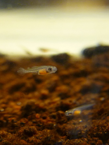 5-day old Nothobranchius eggersi babies, from an instant fish kit I bought... they are pretty cute!